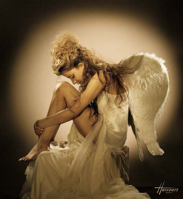 Najoua Belyzel photographed by Studio Harcourt Paris